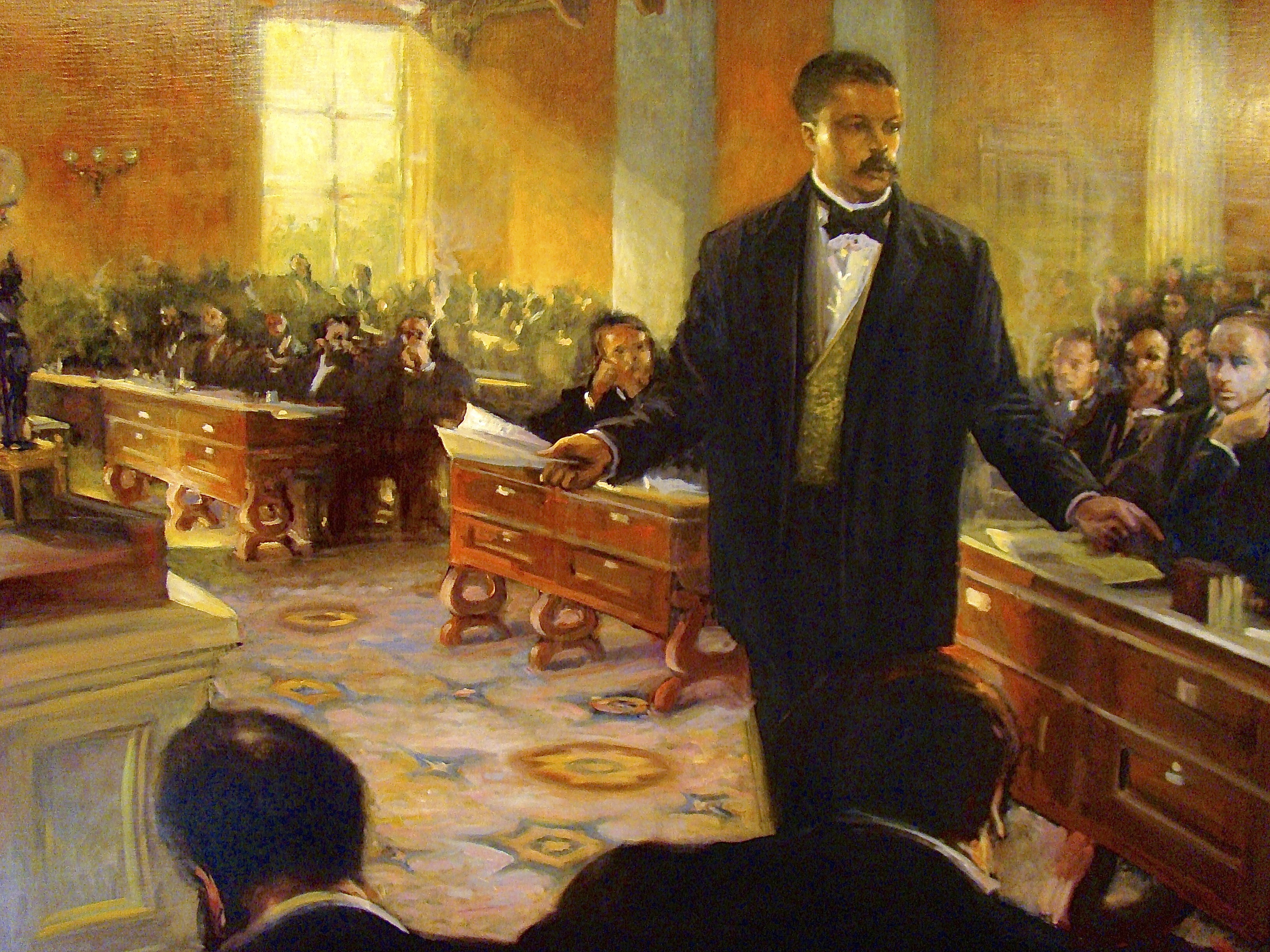 Painting of George Washington Williams addressing the Ohio State Legislature. Williams was the first African-American elected to the Ohio State Legislature, serving one term 1880 to 1881.